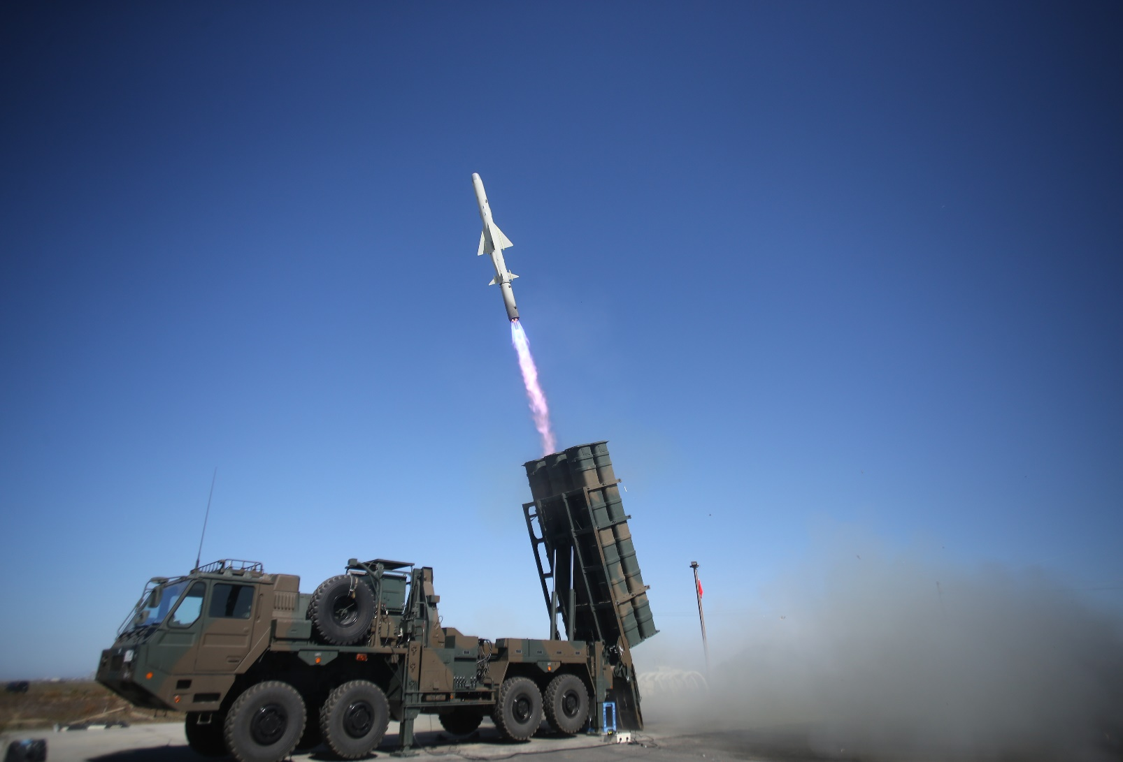 Type 12 (AShM) firing, Japan GSDF